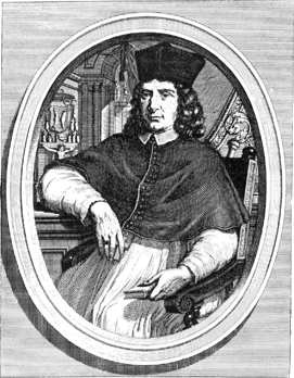 Johannes van Neercassel (1625-1686)